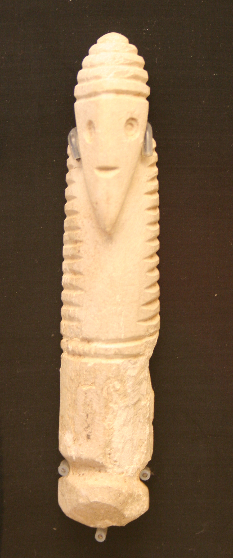 "Homme barbu" amulet, ivory, provenance unknown, Naqada I or II